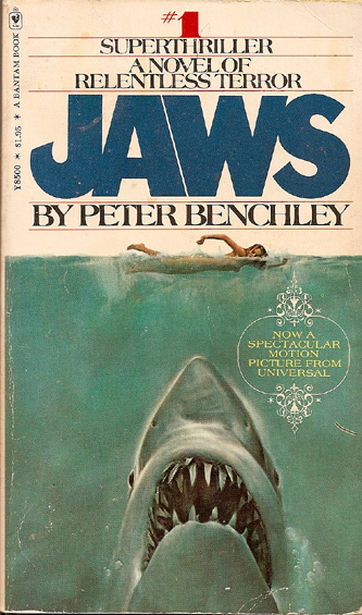 The cover for the first paperback edition of Peter Benchley's Jaws.